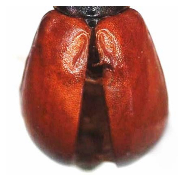 Modified elytra: Paleosepharia zakrii Mohamedsaid.